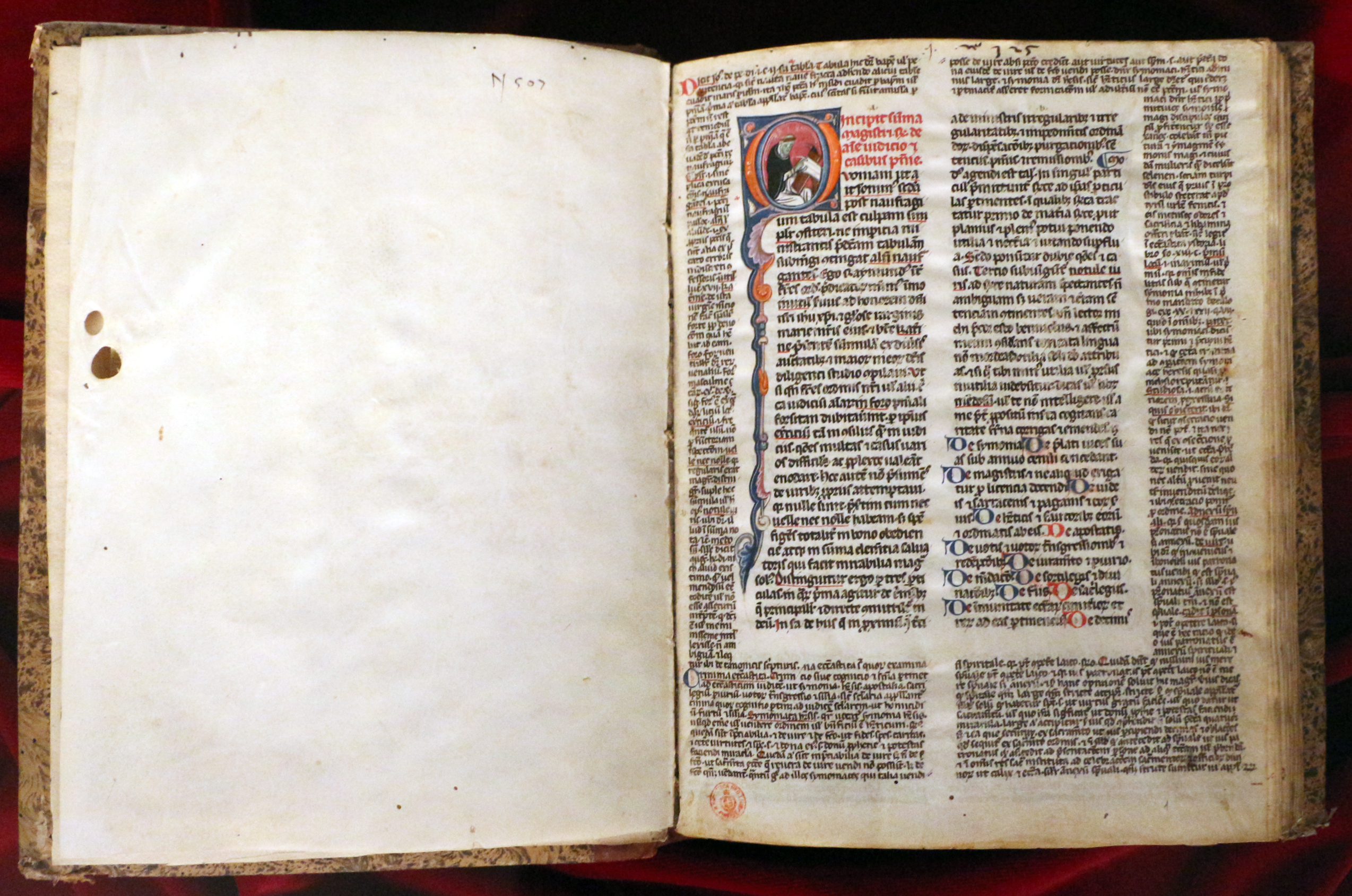 Biblioteca Medicea Laurenziana manuscripts